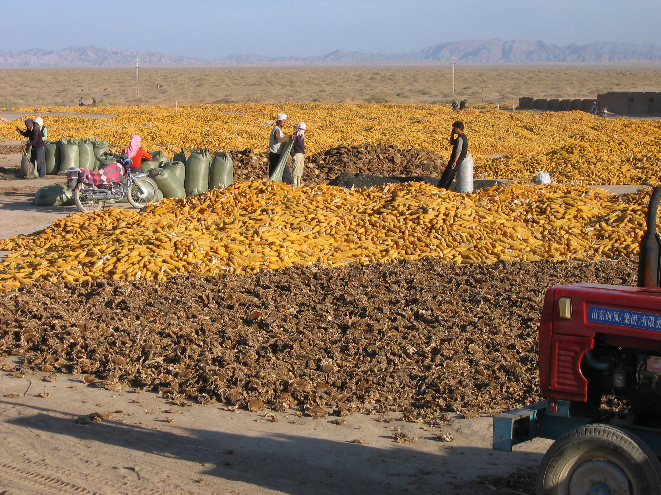 Maize and subflower harvest Chahaertan, China 2005. Photo: AusAID